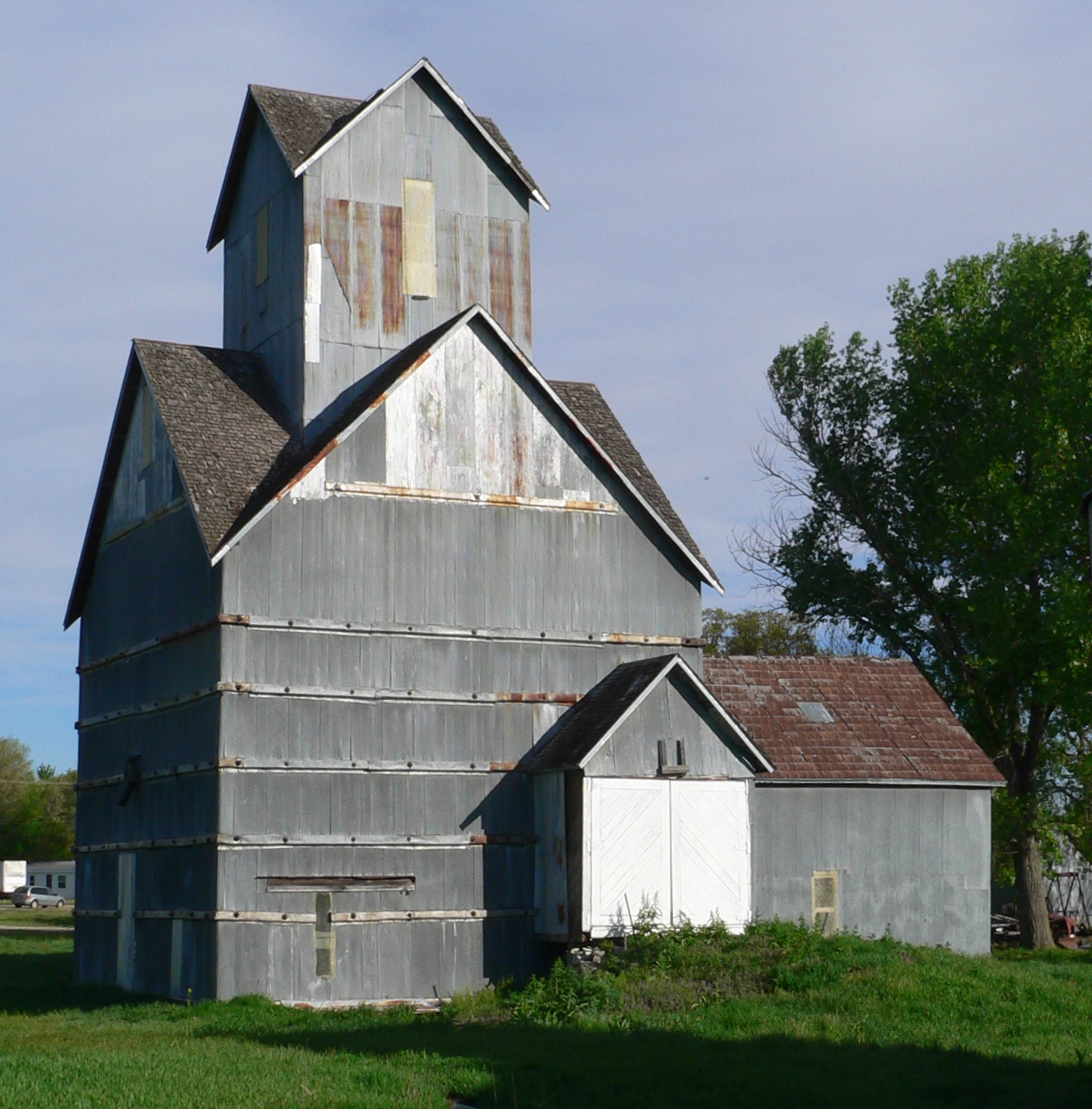 Old Ithaca Grain Elevator in Ithaca, Nebraska; seen from the southeast. (The elevator is not oriented with its sides parallel to the cardinal directions.) Made of wood and covered with tin, it was built ca. 1890. It is listed in the National Register of Historic Places.